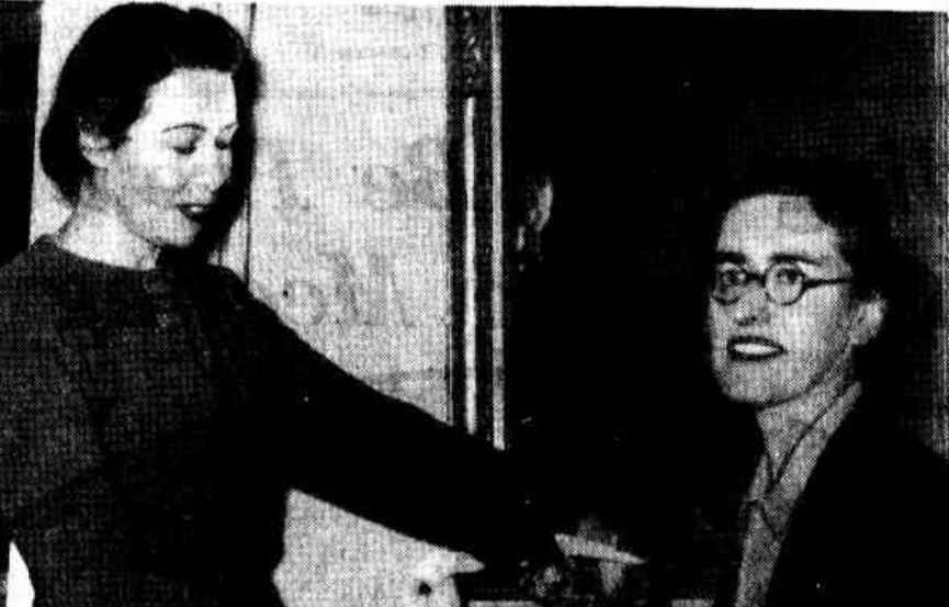 Treania Smith and Lucy Swanton, 1938